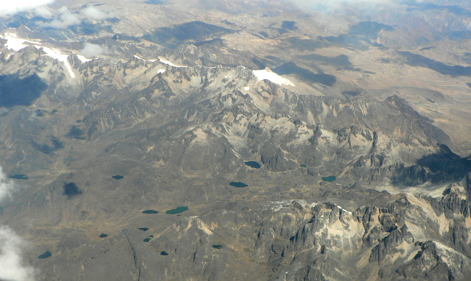 Aerial View of the north west of the Cordillera Quimsa Cruz in the La Paz Department, Bolivia, seen from north (2014.